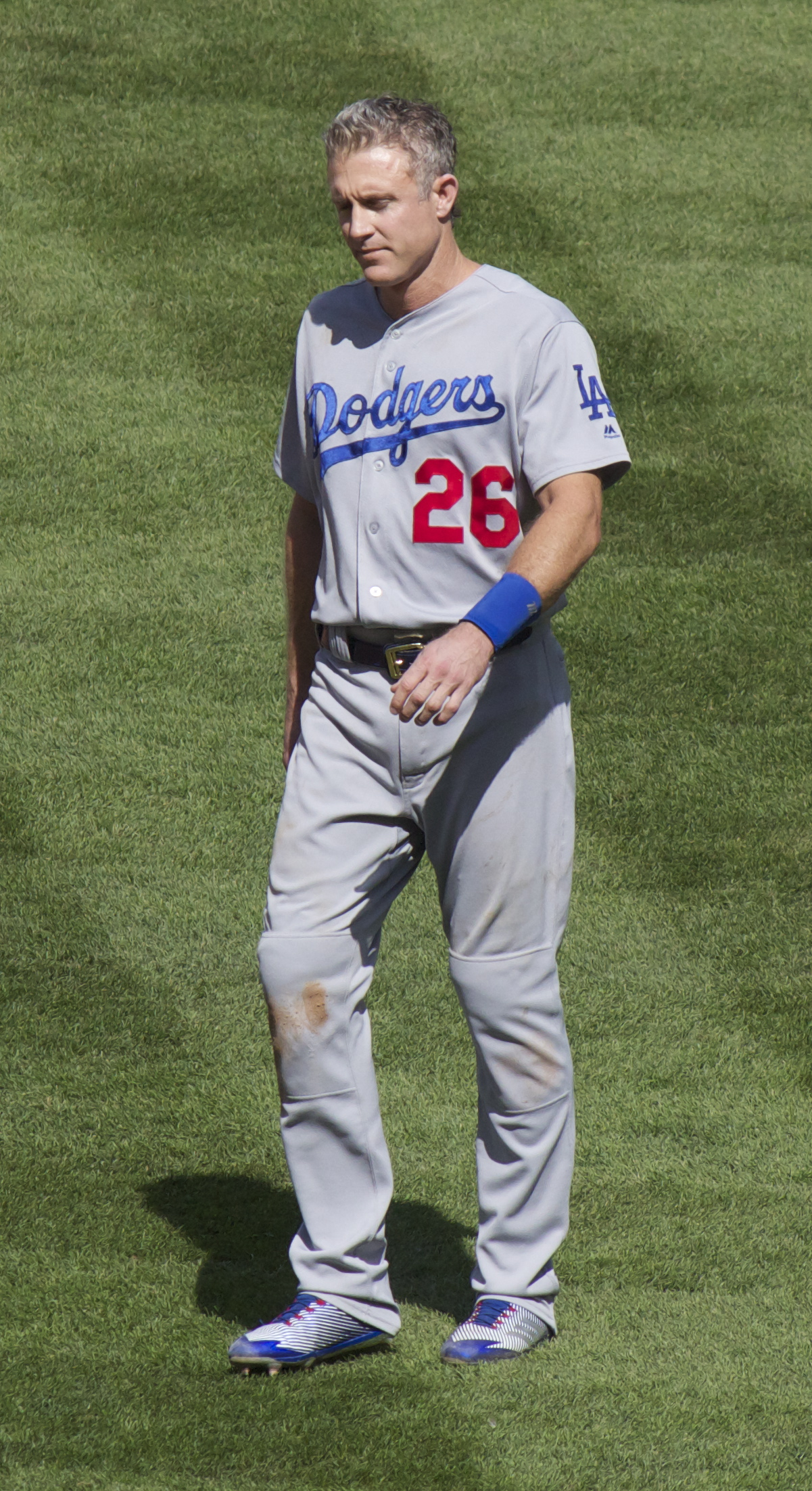 Philadelphia Phillies vs. Los Angeles Dodgers 9/21/17